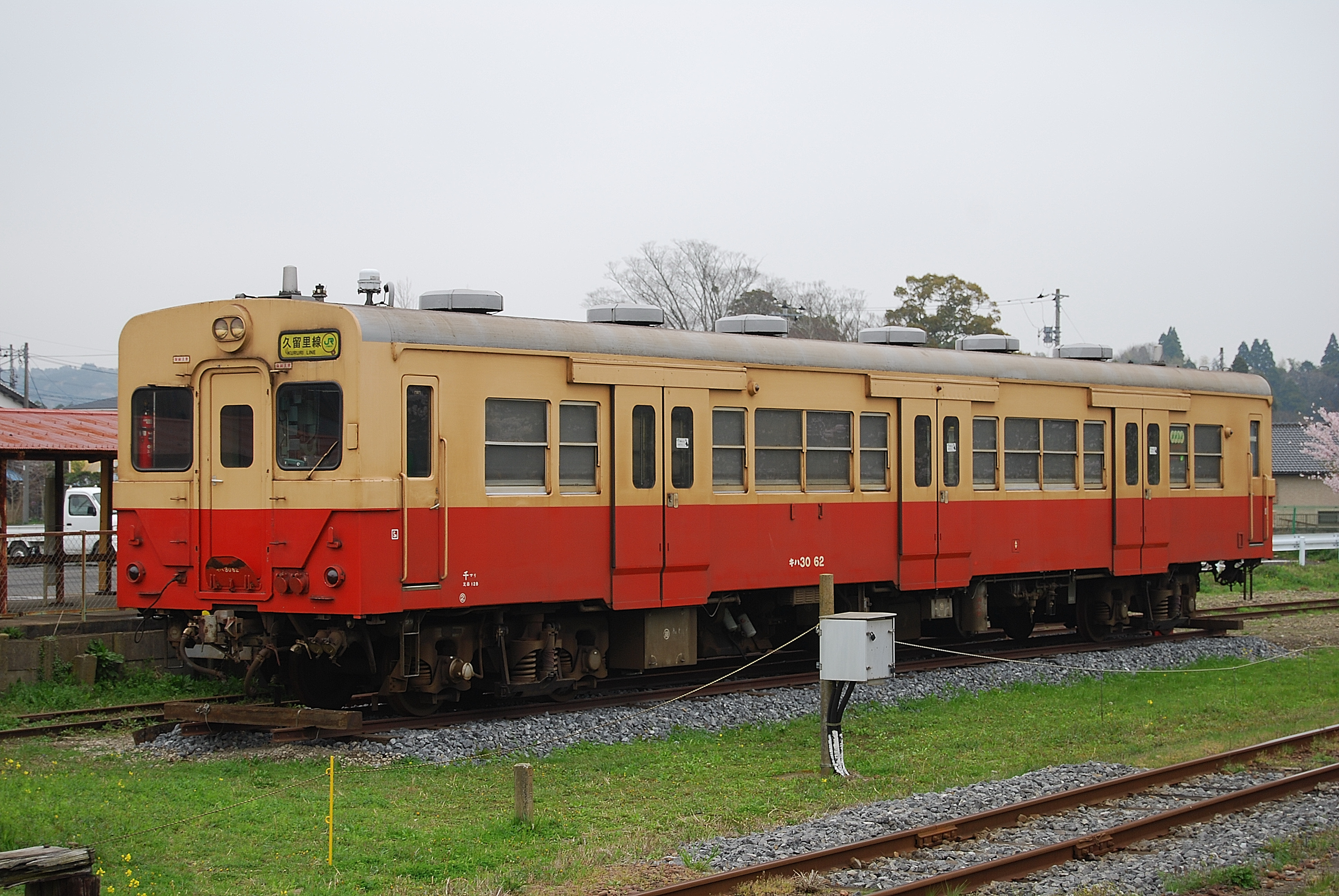 Former JR East KiHa 30 DMU car Kiha 30 62 on the Isumi Railway in Chiba Prefecture, Japan